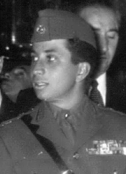 King of Iraq, Faisal II